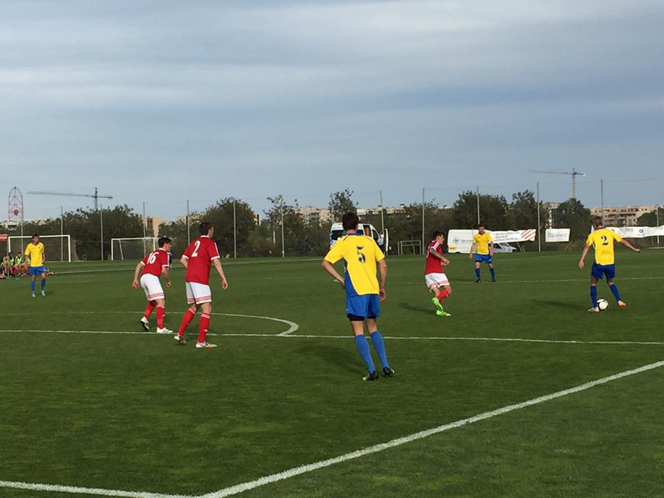 Photo taken at IFCPF Pre Paralympic Tournament Salou 2016 using personal iPhone.